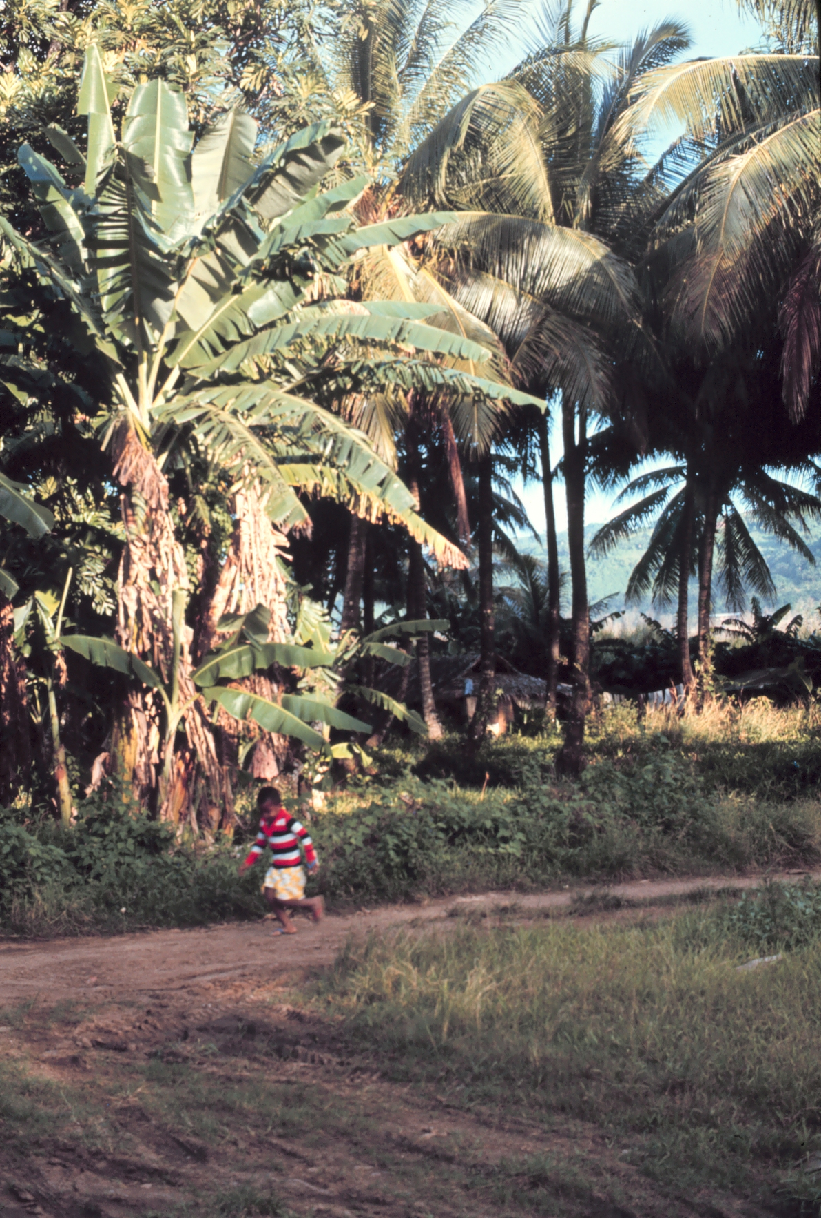 A view of Chuuk. Truk, Caroline Islands.